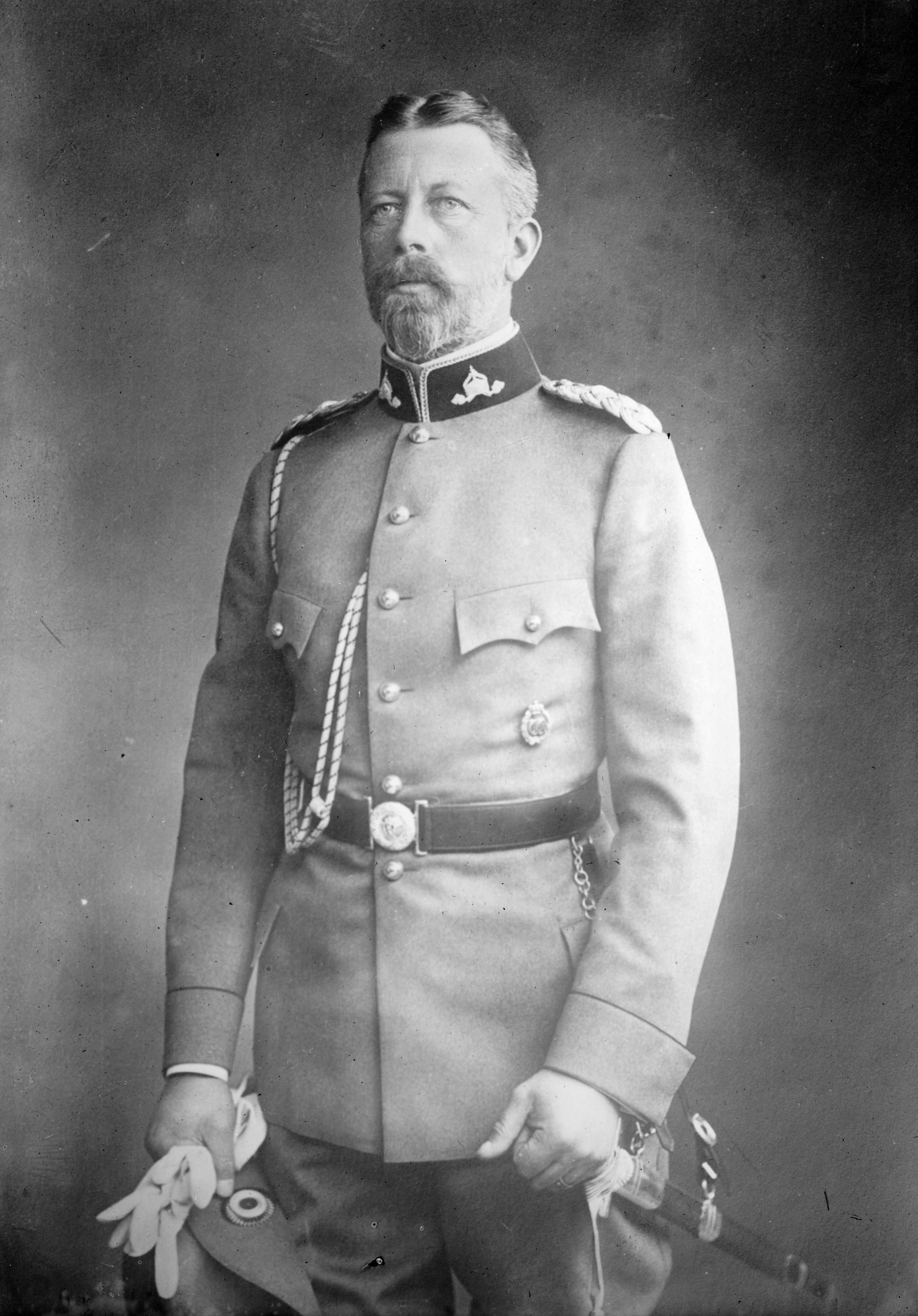 Prince Henry of Prussia